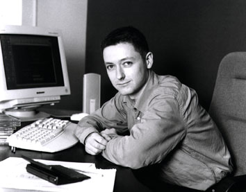 Tony Warriner, a video game designer, design Beneath a Steel Sky.